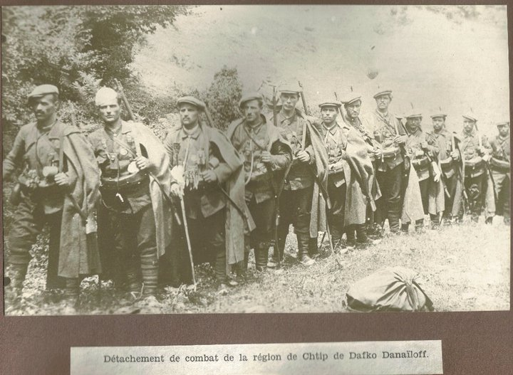 Imaro cheta of Dafko Danailov